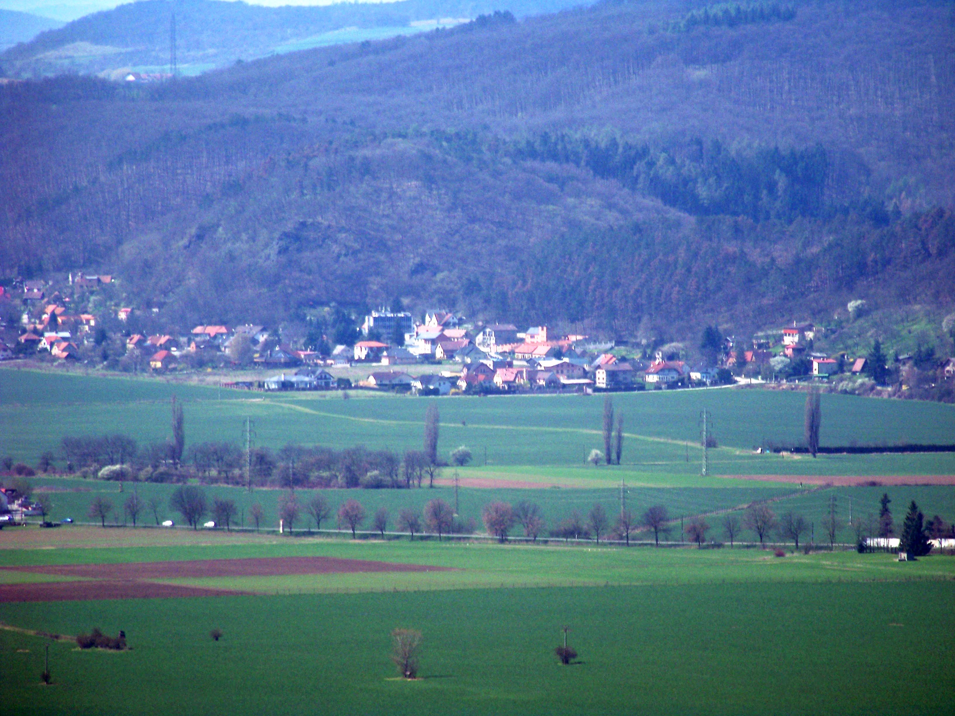 A view of Karlík from Hladká skála (Smooth Rock), Jíloviště, Prague-West District, Central Bohemian Region, the Czech Republic. - Google Maps - Google Earth